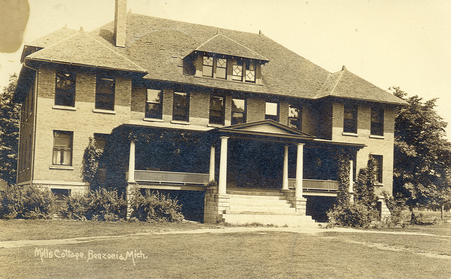 Mills Cottage Benzonia NRHP #72000593